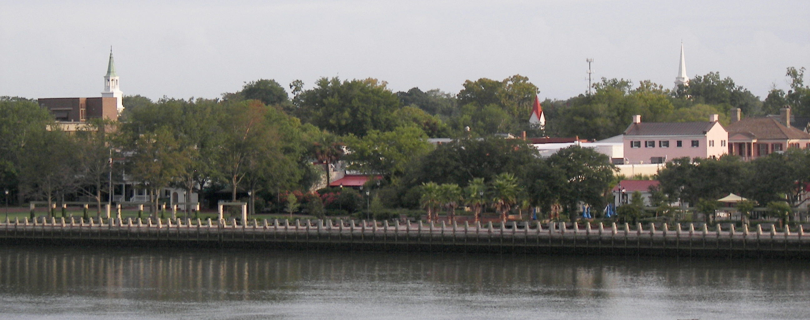 Downtown Beaufort, South Carolina. The Henry Chambers Waterfront Park is shown, along with several buildings along Bay Street, Beaufort's commercial core.